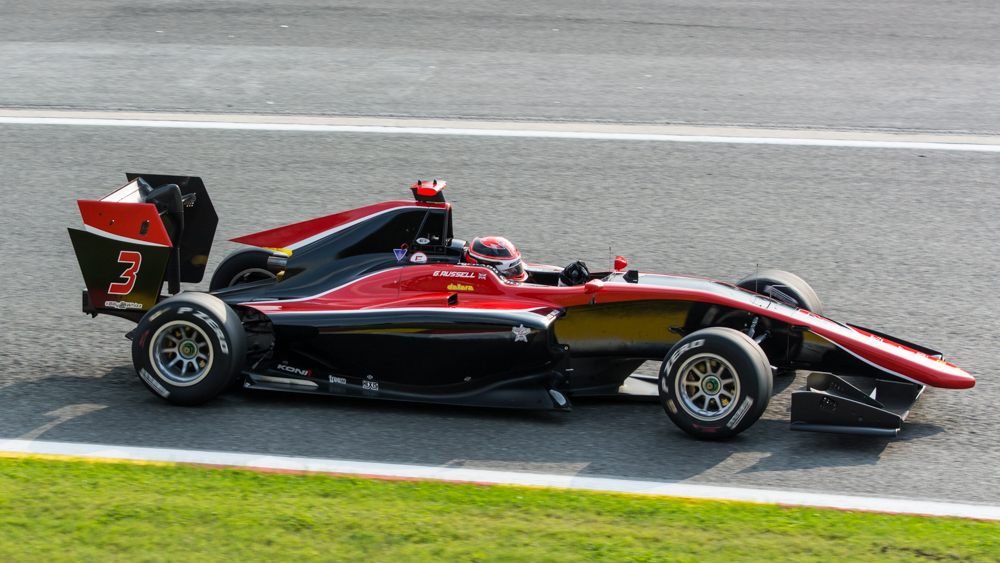 George Russell of team ART Grand Prix on 26 August 2017 at Spa-Francorchamps